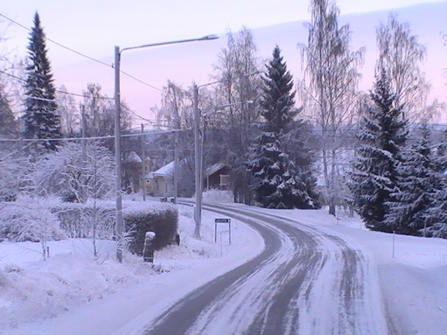 Finnish connecting road 2171 at Irjanne, Eurajoki. The road runs from connecting road 2170 to Finnish national road 8's and European road 8's crossroad. The photo has took inside of the bus of Satakunnan liikenne, which uses daily the connecting road 2171.